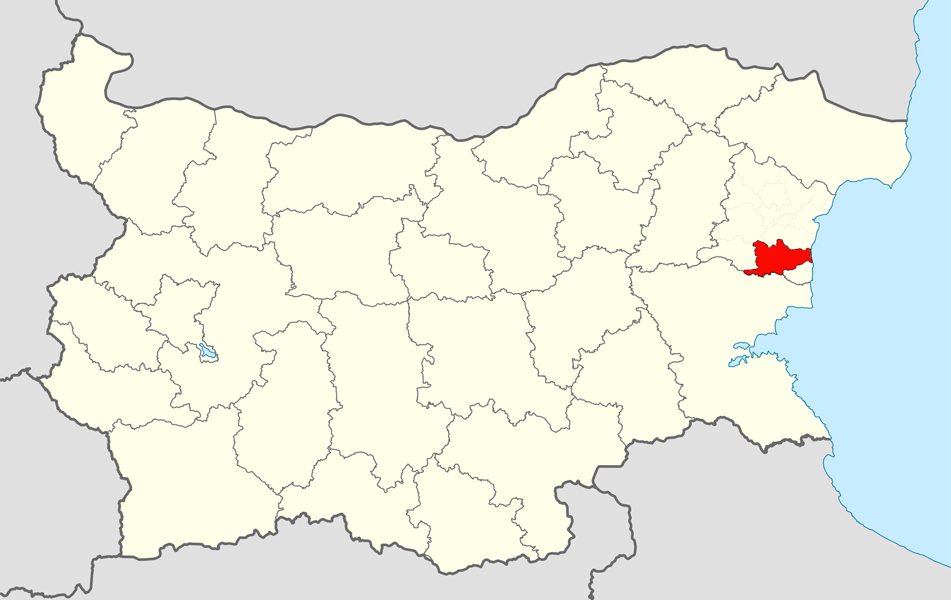 Location map of Dolni Chiflik Municipality within Varna Province, Bulgaria. Equirectangular projection, N/S stretching 130 %. Geographic limits of the map: N: 44.4° N S: 41.1° N W: 22.1° E E: 28.9° E